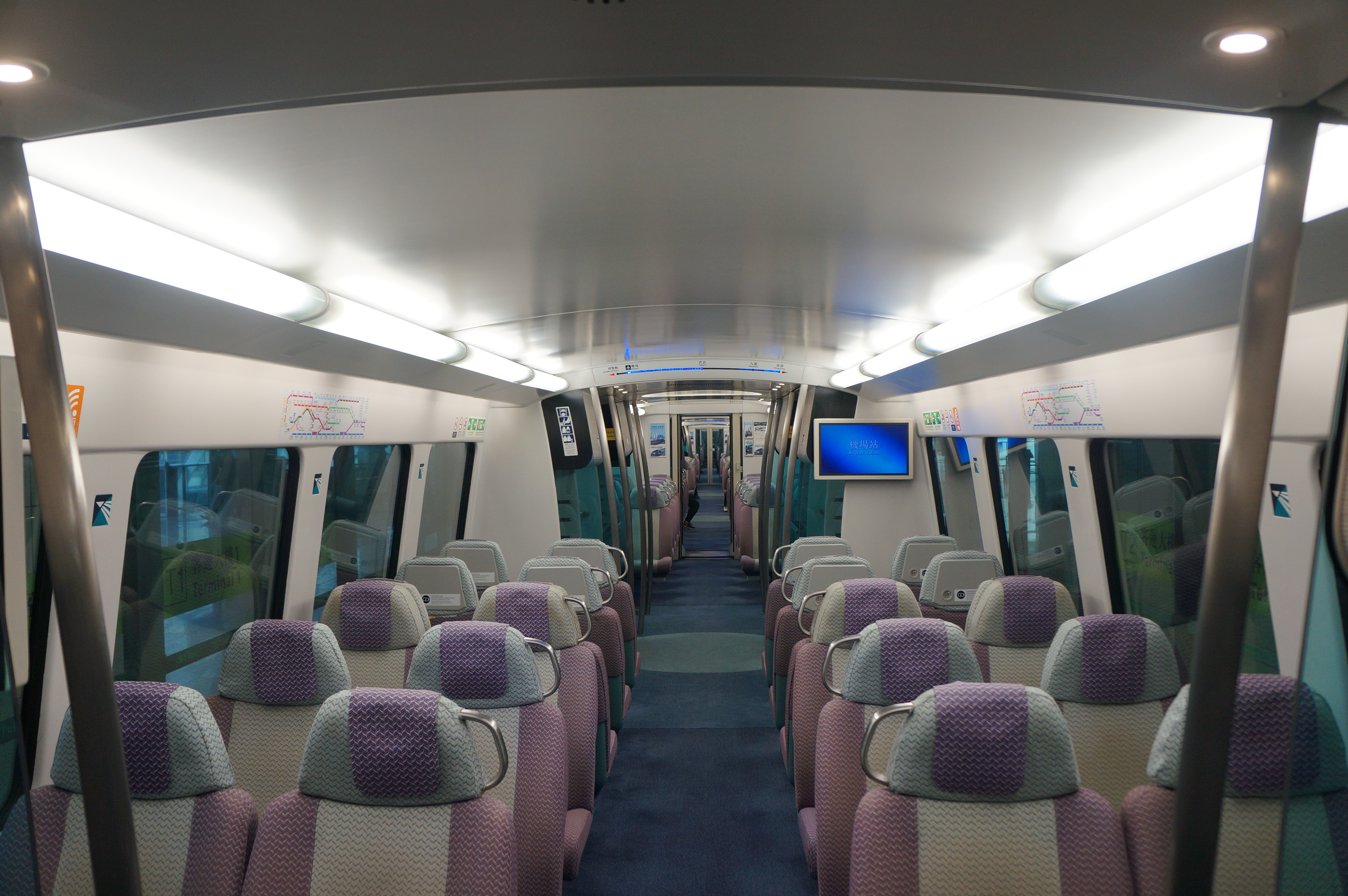 201611 Interior of A-Stocks